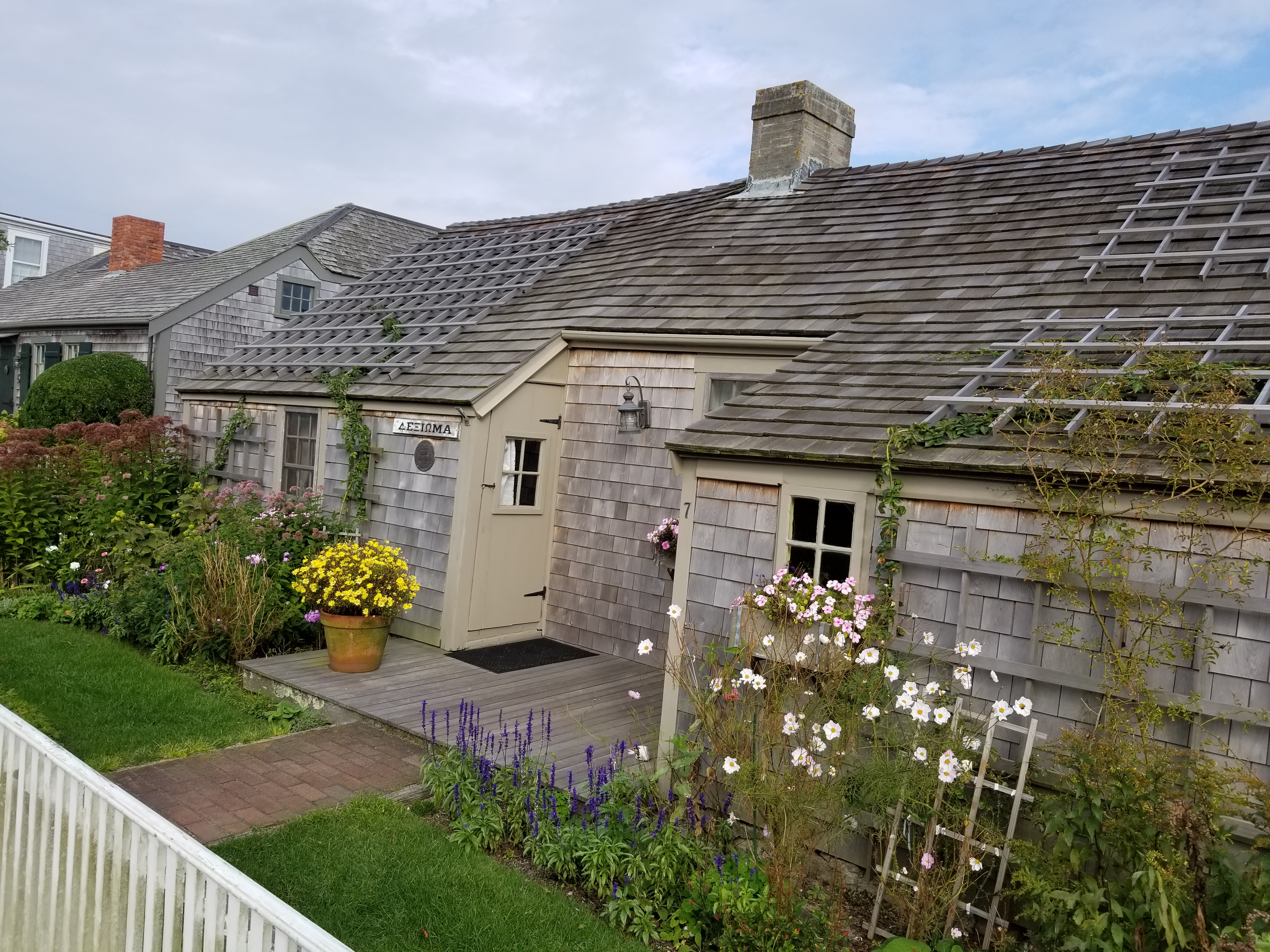 Dexioma House at 7 Broadway in the village of Siasconset Sconset in Nantucket Massachusetts MA